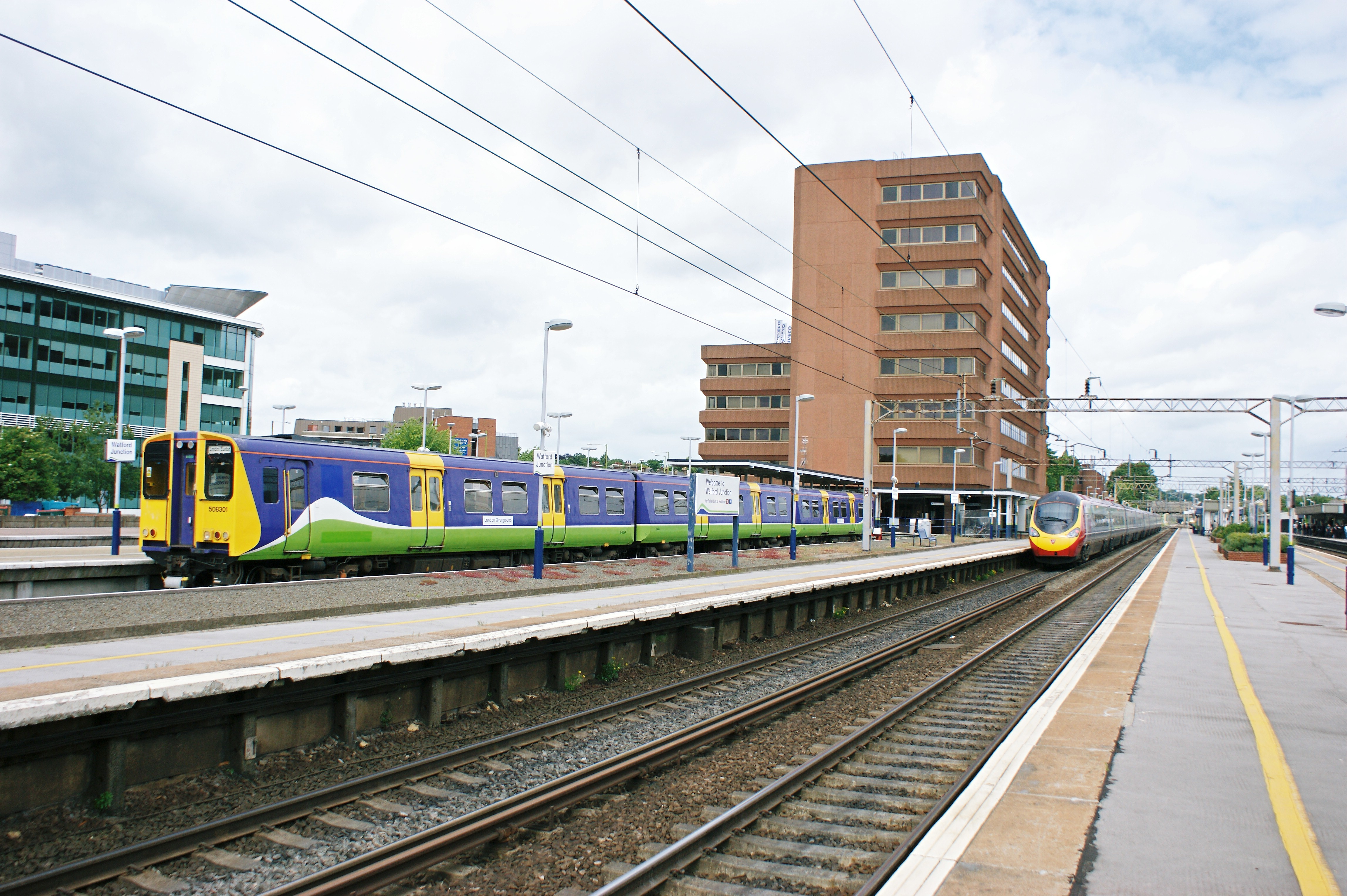 Watford Junction with 508 301 on a Euston service and a Pendolino on a Glasgow service, 07/08.